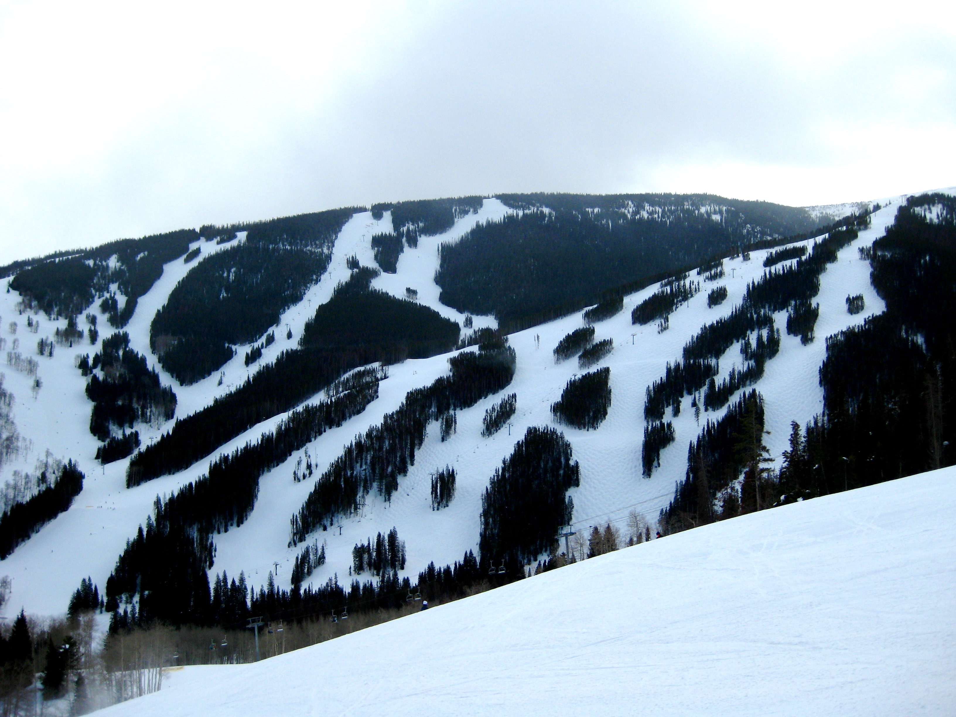 Birds of prey, waiting